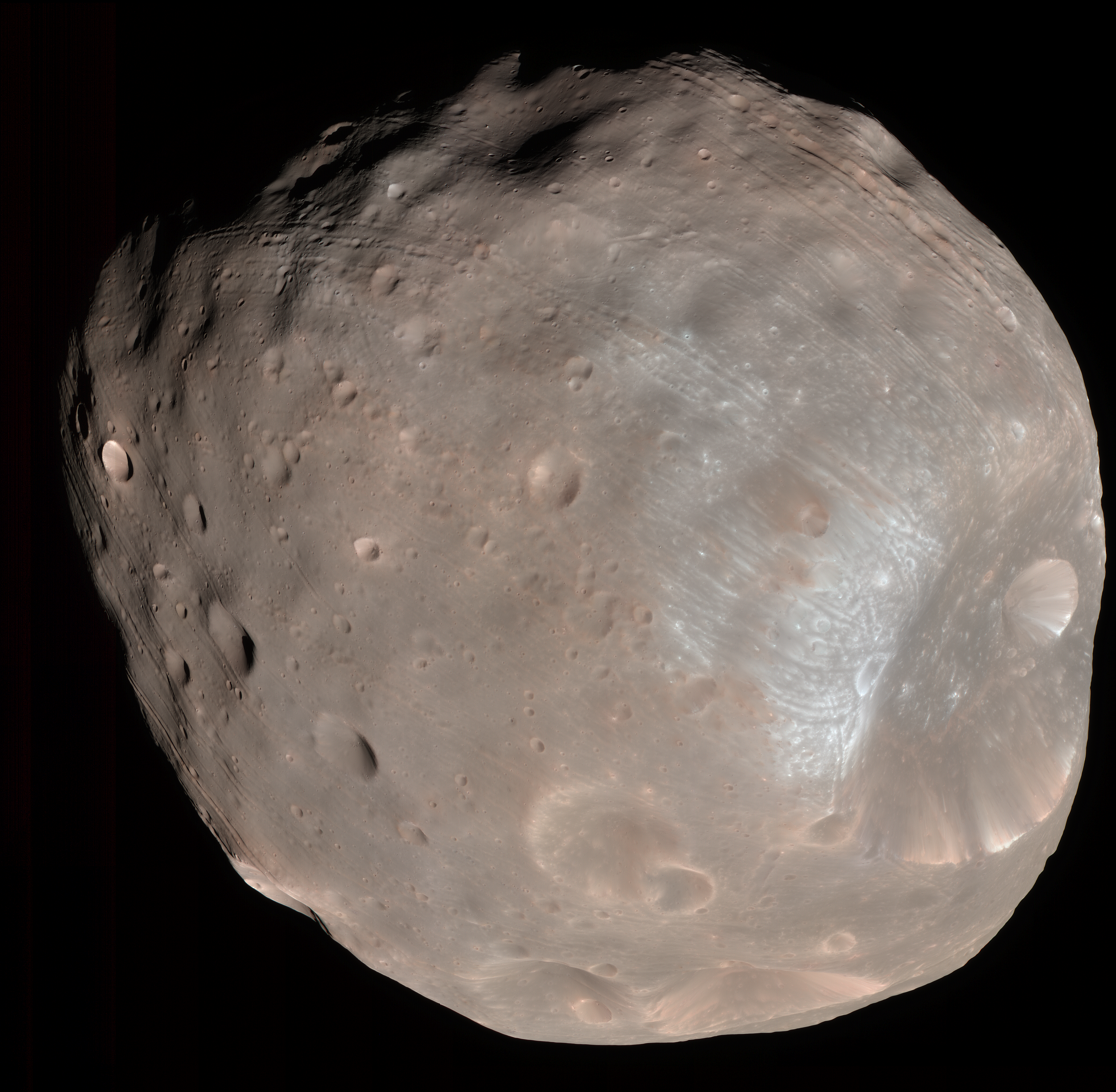 Colour image of Phobos, imaged by the Mars Reconnaisance Orbiter in 2008.Türkmençe: Phobos, Mars-yň iki hemrasyndan biri. Güneş Sistemasy-ndaky beýleki hemralara garanyňda planetasyna iň ýakyn ýerleşýän hemradyr. Mars ýüzündäki biri üçin günde iki gezek dogup batýar.